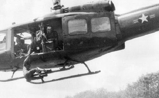 ARVN flee by UH-1 helicopter